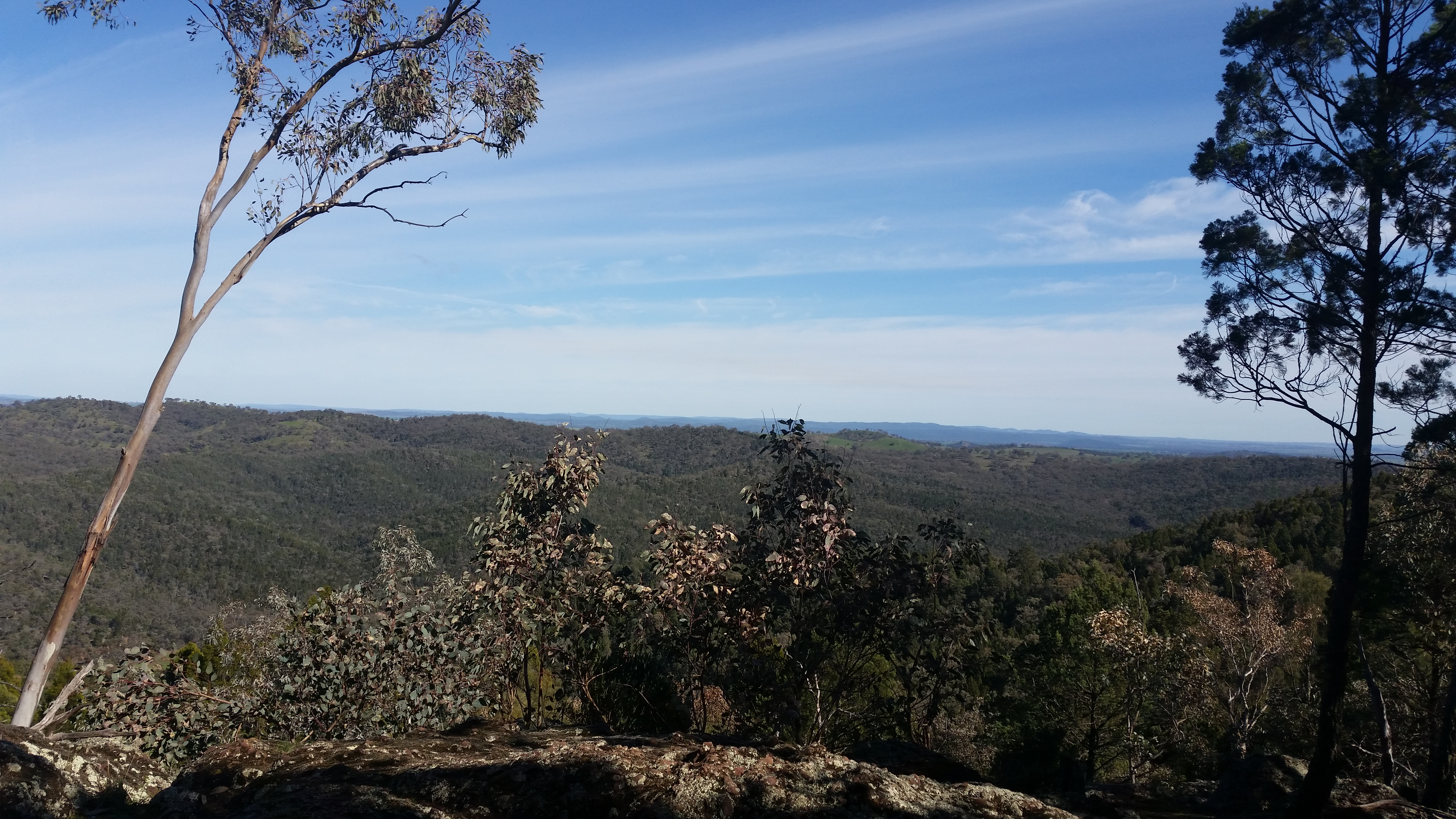 The view from one of the walking tracks at the Mt Arthur Reserve in Wellington, NSW.